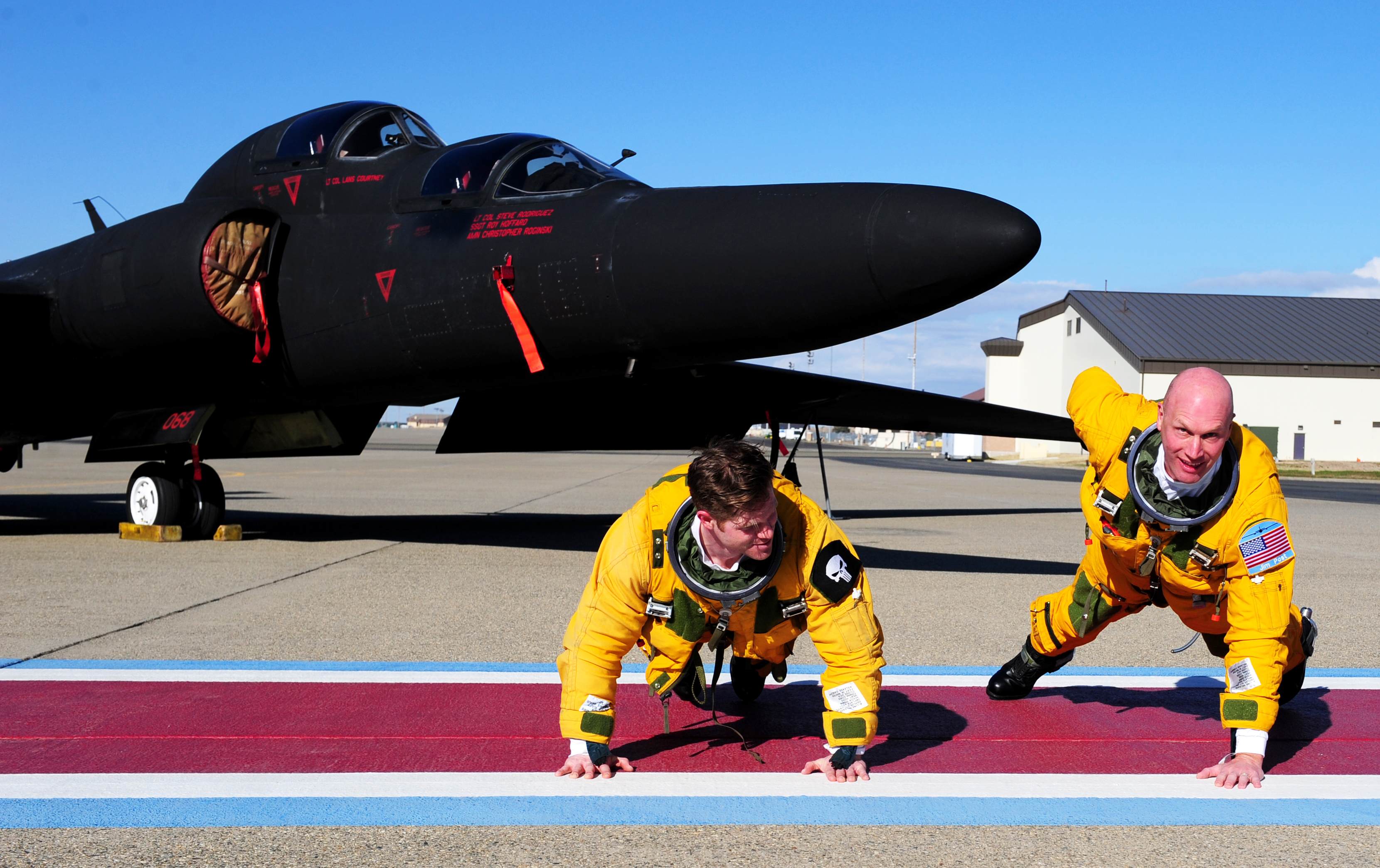 Maj. Gen. James N. Post III, Air Combat Command director of operations (right), demonstrates a one armed push-up alongside Maj. Geoffrey, 1st Reconnaissance Squadron U-2 pilot, Dec, 3, 2013, at Beale Air Force Base Calif. Post and Geoffrey recently completed a sortie aboard a TU-2S. (U.S. Air Force photo by Airman 1st Class Bobby Cummings/Released)